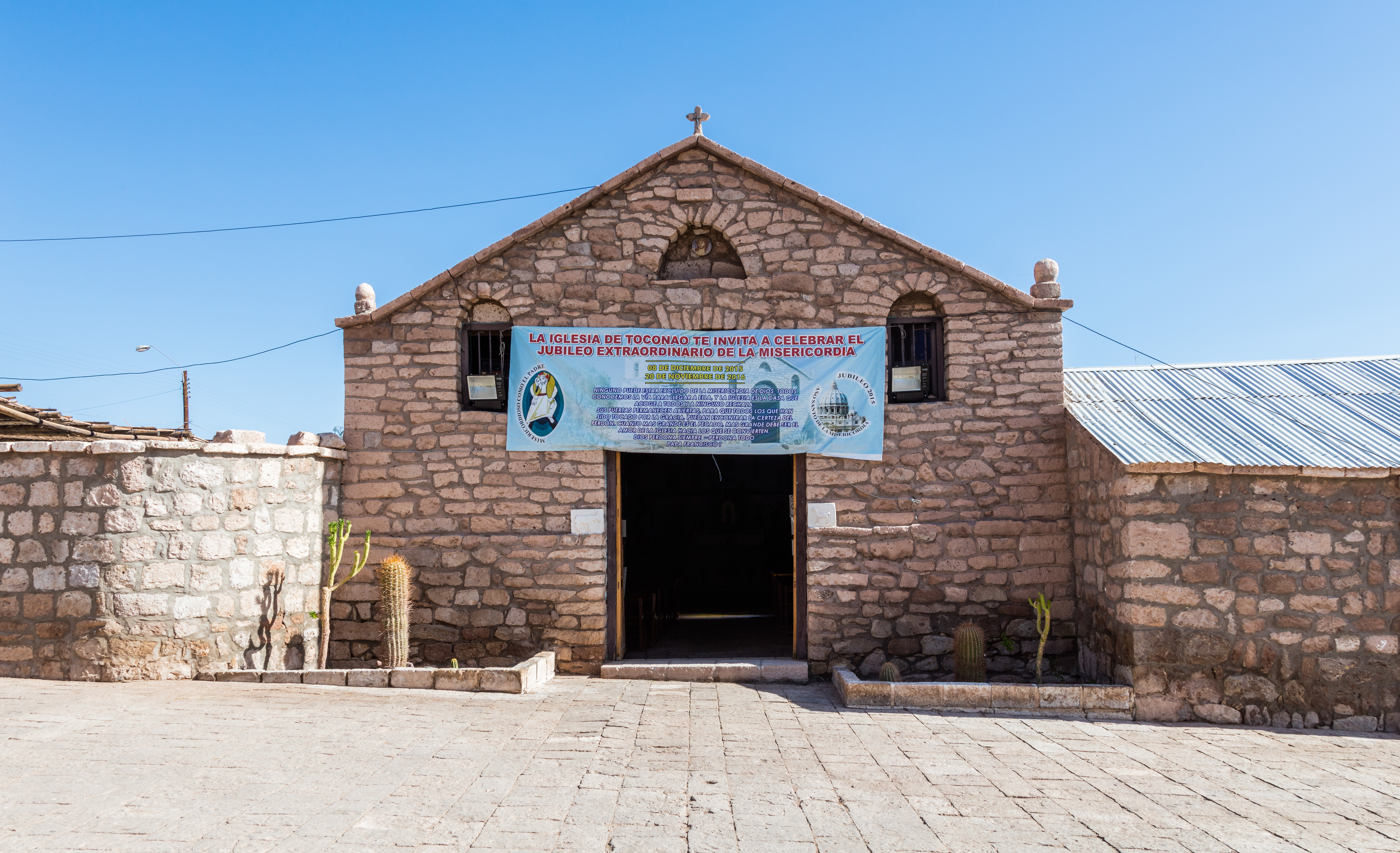 Church of San Lucas, Toconao, Chile